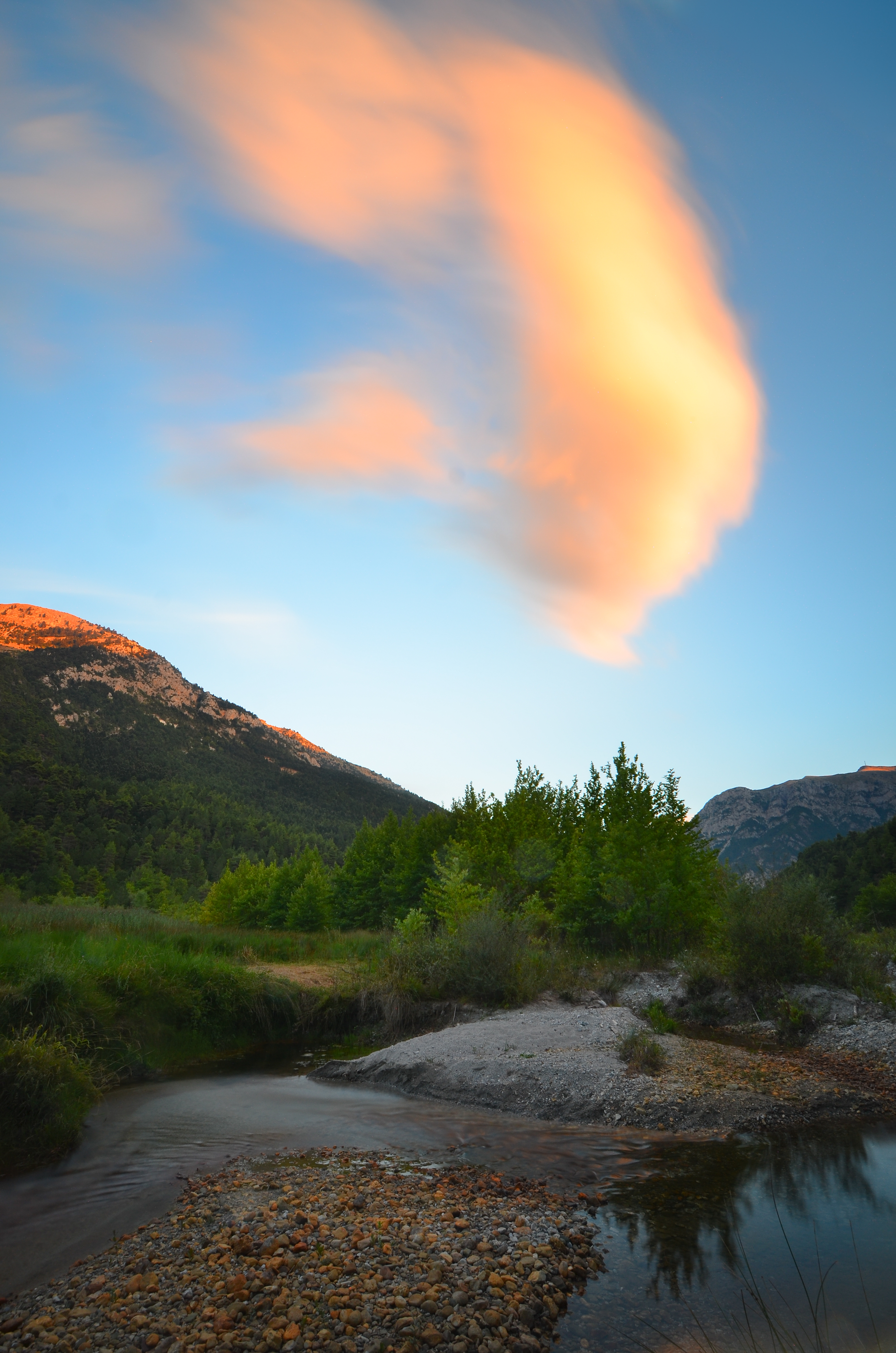 Photo of Krathis River near tsivlos Lake, In mountain Chelmos